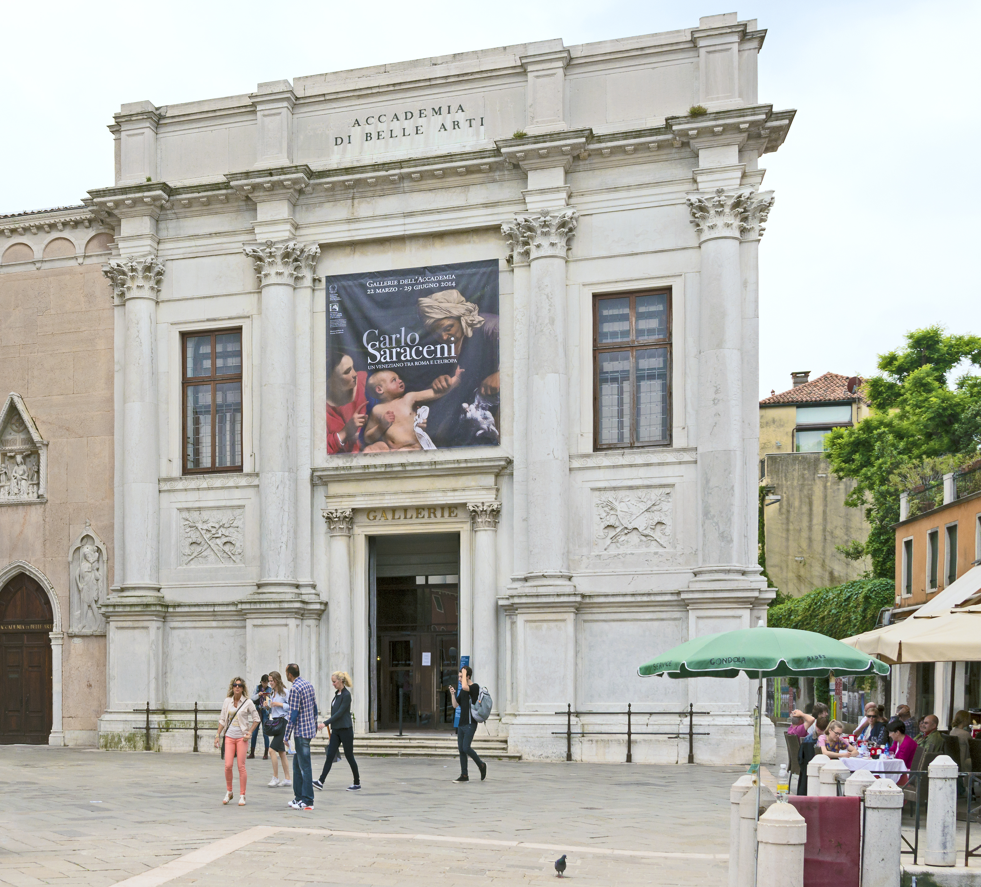 Gallerie dell'Accademia in Venice, facade on campo della carità. This facade originally was that the Scuola Grande di Santa Maria della Carita. The drawing is due to Giorgio Massari but the realization of the architect Bernardino Maccarucci in 1766. It now serves as the entrance to the Gallerie dell'Accademia.